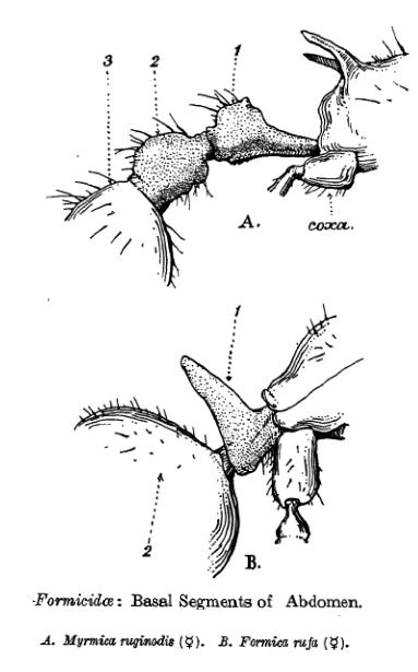 Abdomens of ants